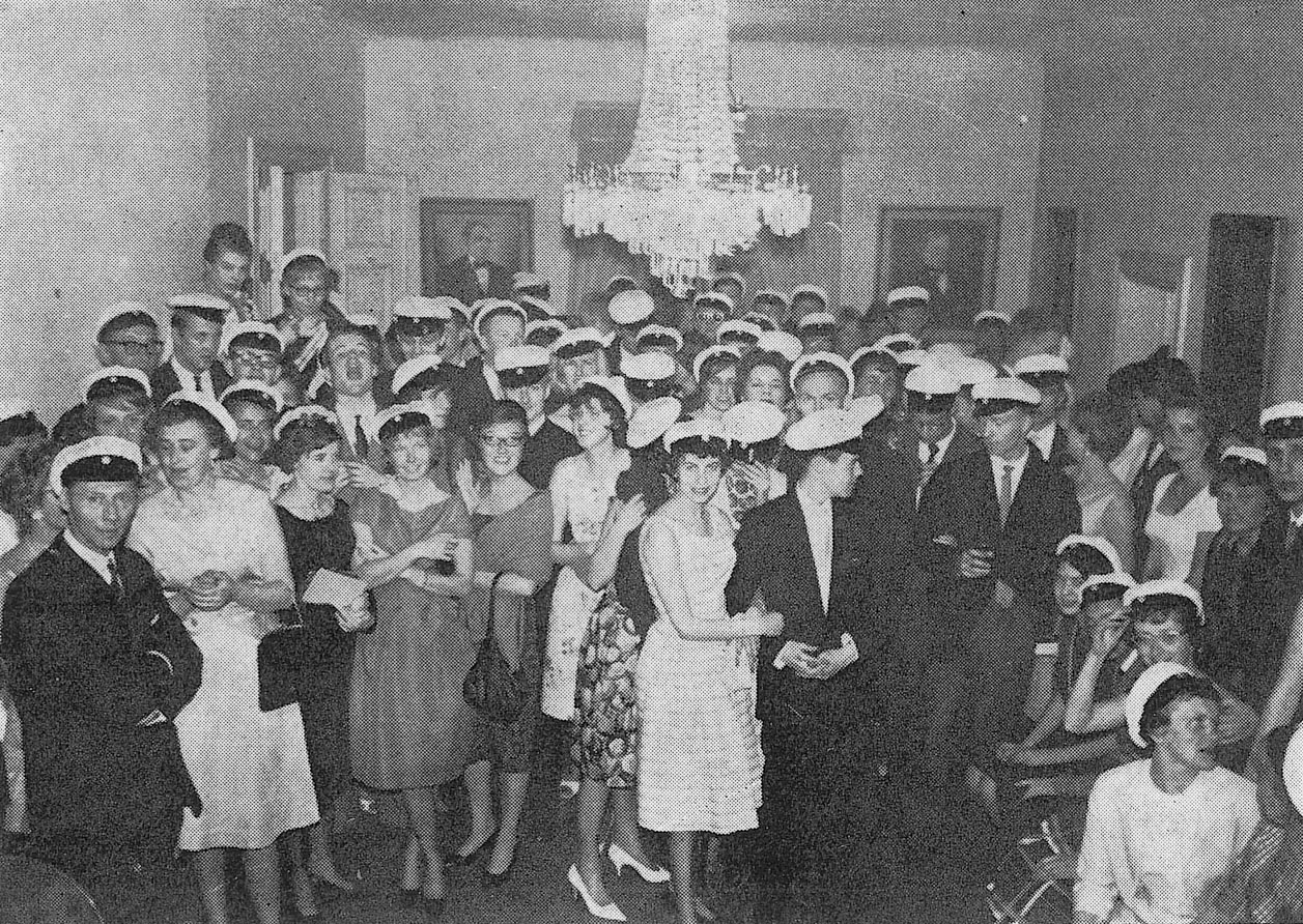 Last april feast 1962, Viktoria hall, Kalmar Nations 2:nd hous, Uppsala.